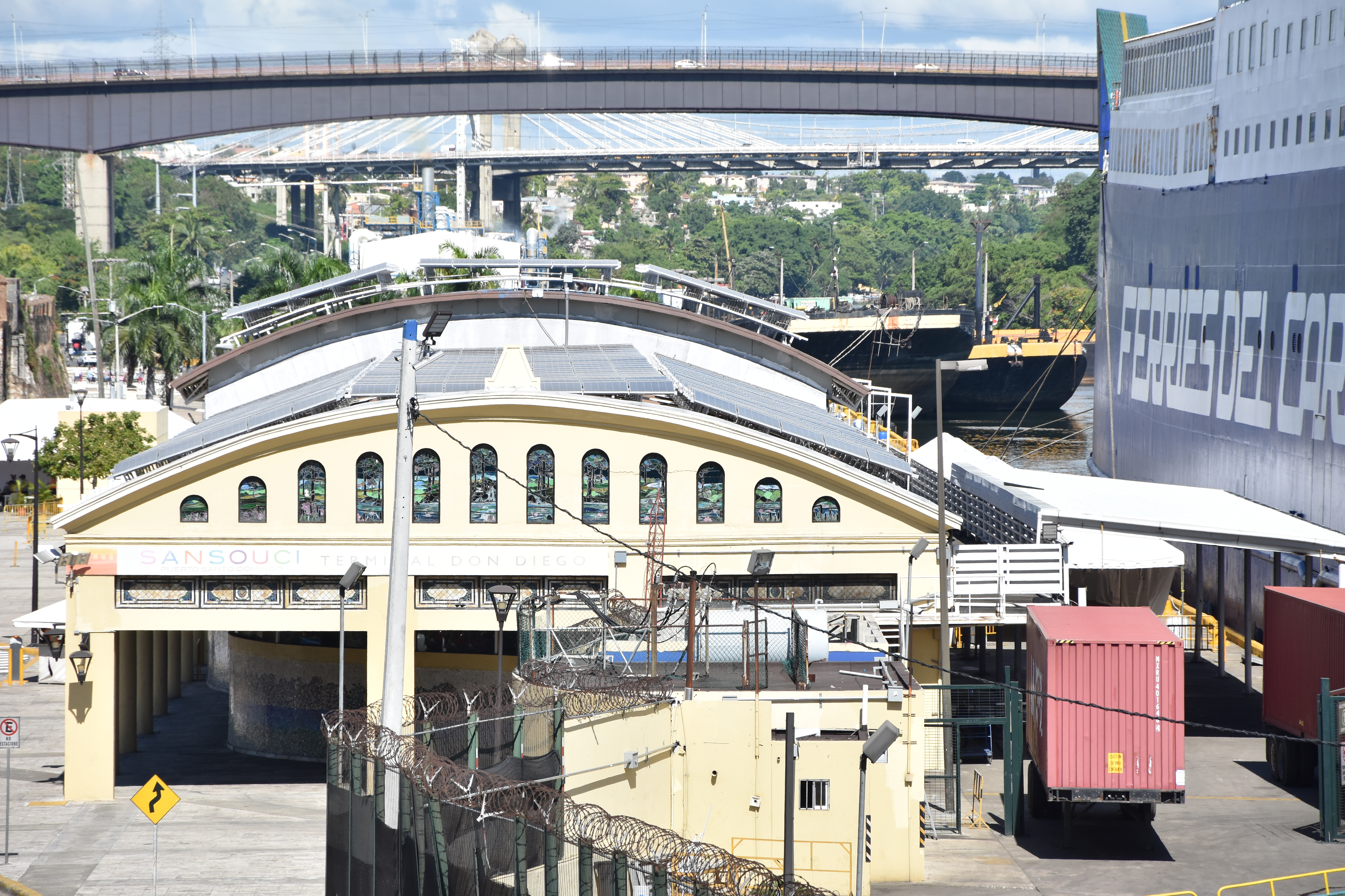 The Don Diego Terminal of the Port of Santo Domingo, in the Ciudad Colonial of Santo Domingo, Dominican Republic.